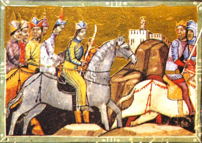 Béla IV flees from Mohi